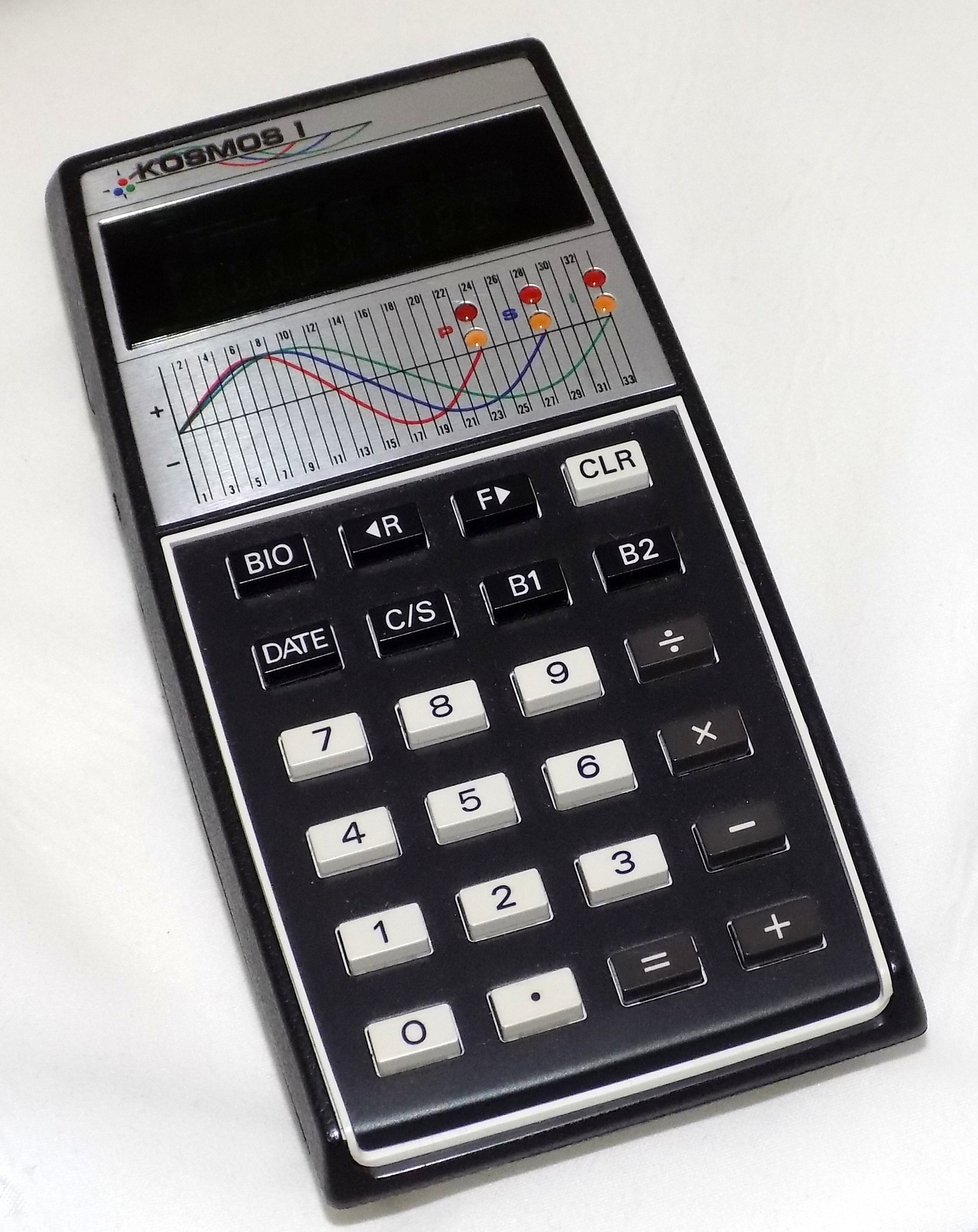 Vintage Kosmos 1 Biorhythm Computer And Calculator, 8 Digits, Green Fluorescent, Calculates A Person's Three Biorhythm Cycles (Physical, Emotional, and Intellectual), Made In Japan, Circa 1977